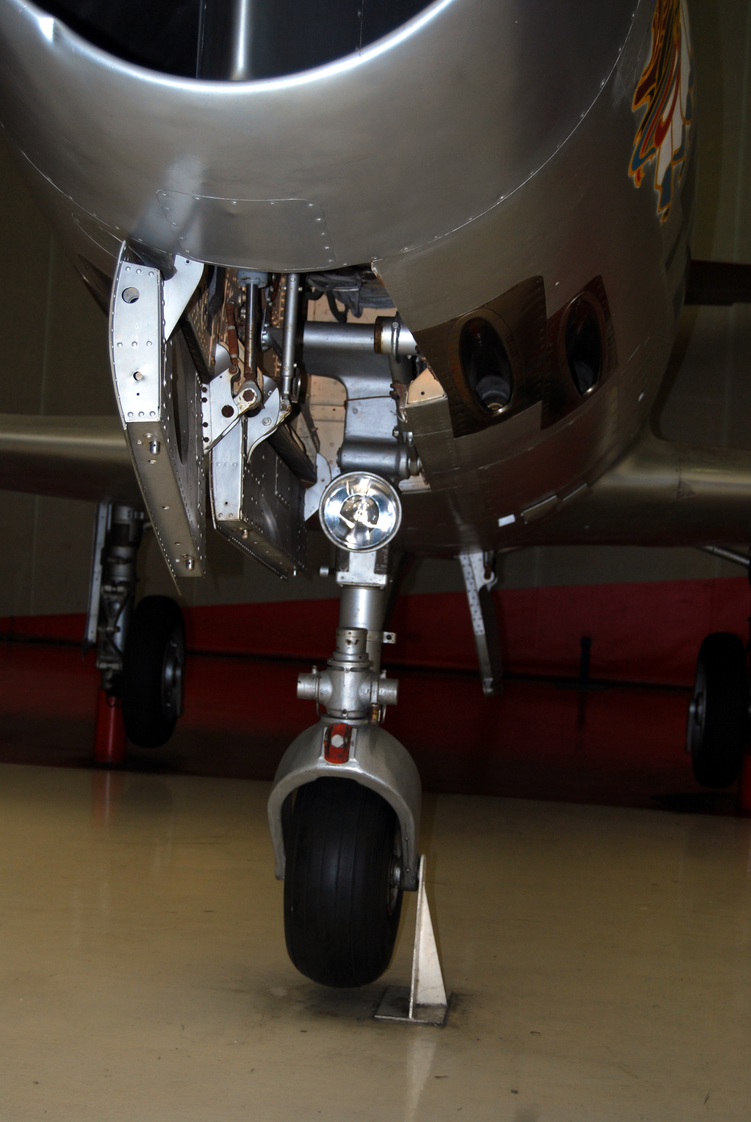 Photo ref; DSC1224-2012